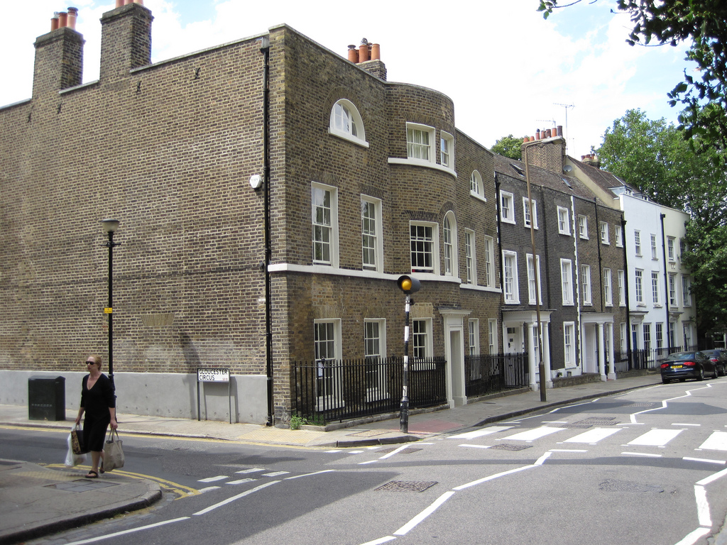 Crooms Hill, Greenwich, London, England. The large house on the corner, 24 Crooms Hill was the home of George Orwell's first wife, Eileen O'Shaughnessy's surgeon brother Laurence O'Shaughnessy. Orwell and Eileen stayed at this house.[1] ↑ Gordon Bowker: Orwell's London. . Retrieved on 2011-02-02.